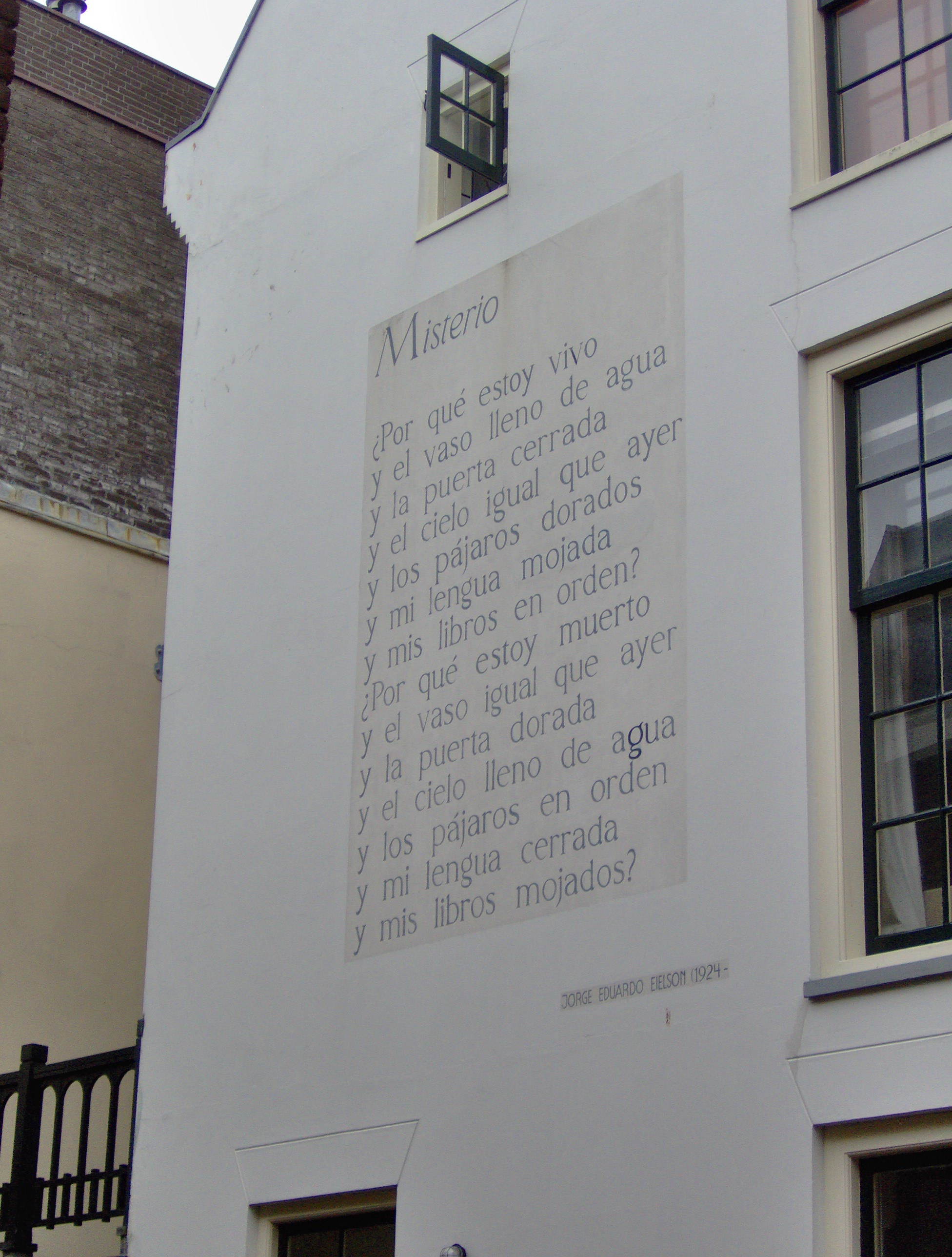 The poem Misterio of the Peruvian author Jorge Eielson on the back wall of the building at Noordeinde 6 in Leiden, The Netherlands